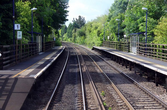 Appleford railway station Original description: Appleford Station